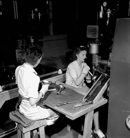 Two female workers assembling Piat anti-tank gun parts. Orilla, Ontario, Canada.